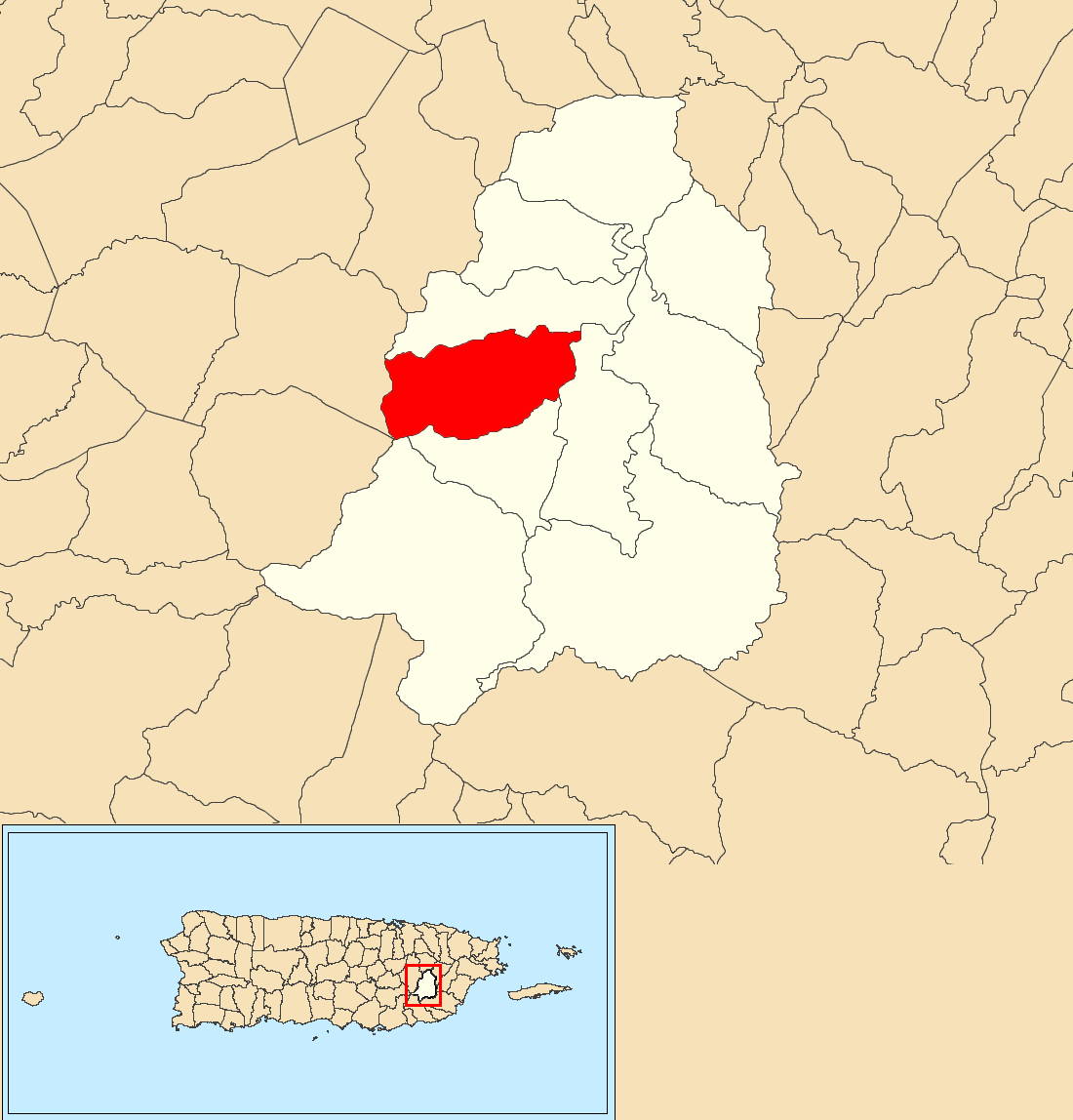 Jagual, San Lorenzo, Puerto Rico locator map